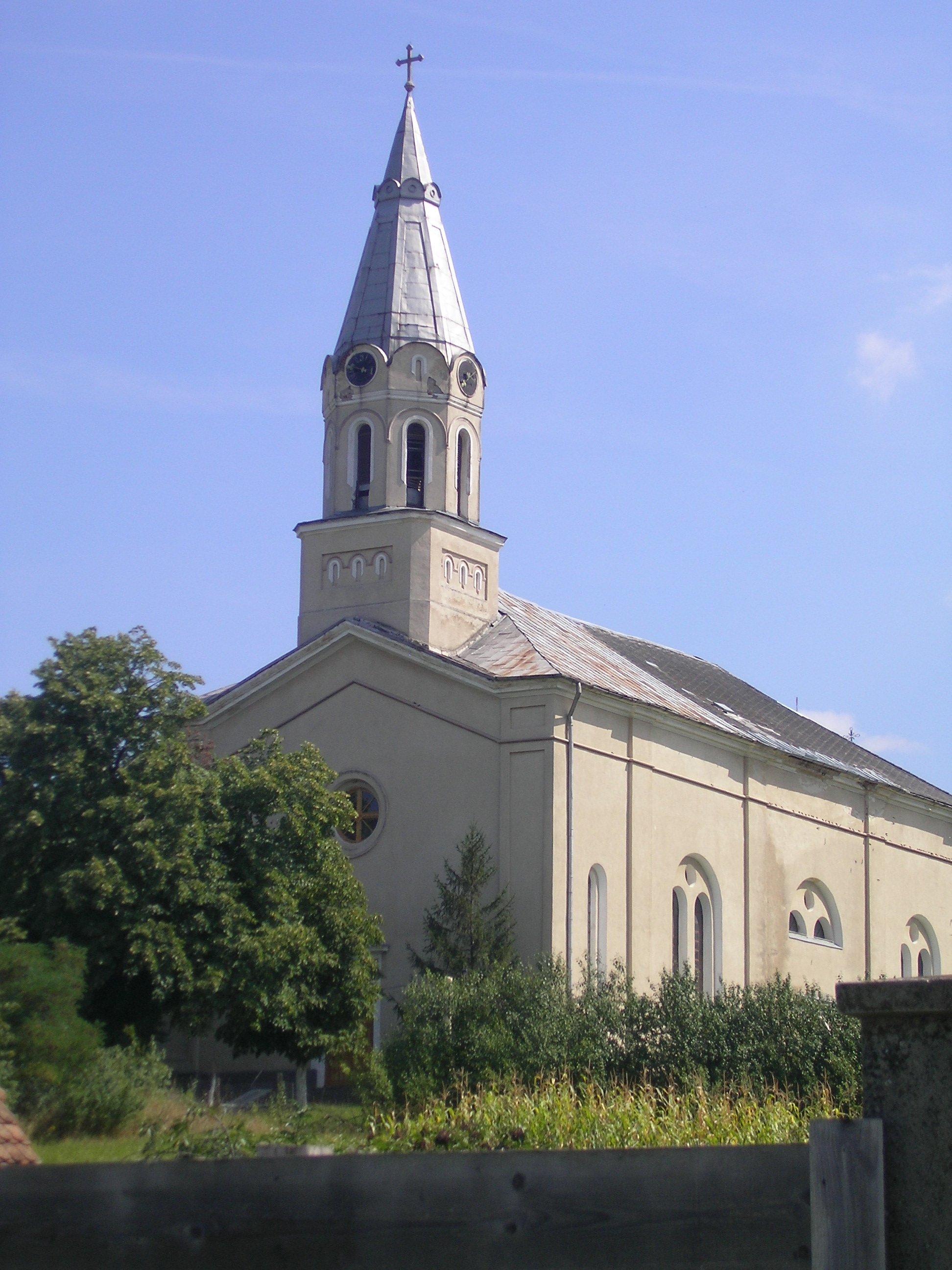 Biserica greco-catolica din Siria